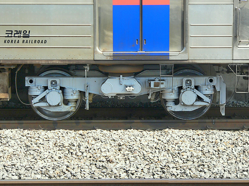 Bogie of KORAIL 311000 series (formerly 5000 series) EMU